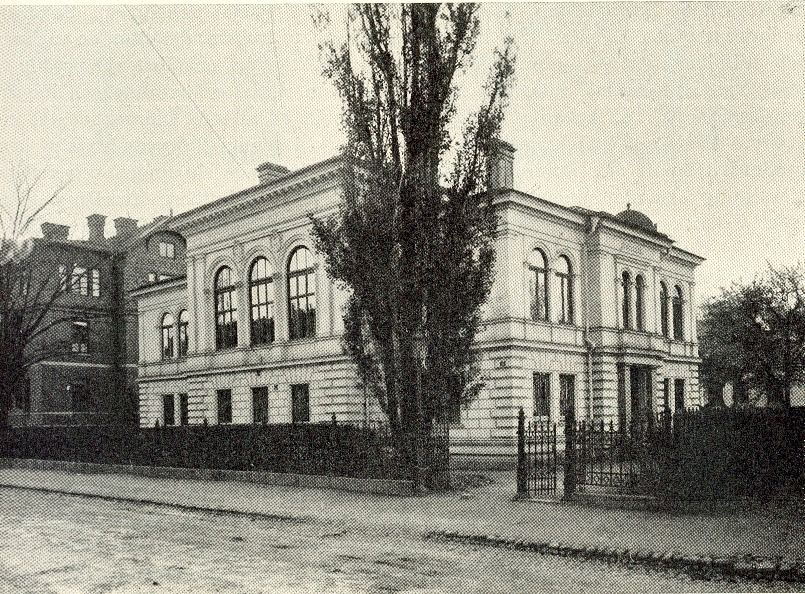 Gästrike-Hälsinge nation, student society at Uppsala University in Sweden. The exterior in 1880, before the addition of a floor. The same house after another floor was added.